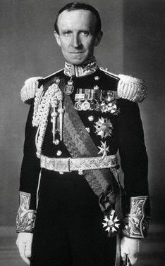 John Buchan, 1st Baron Tweedsmuir (1875-1940), in the ceremonial dress of the Governor General of Canada